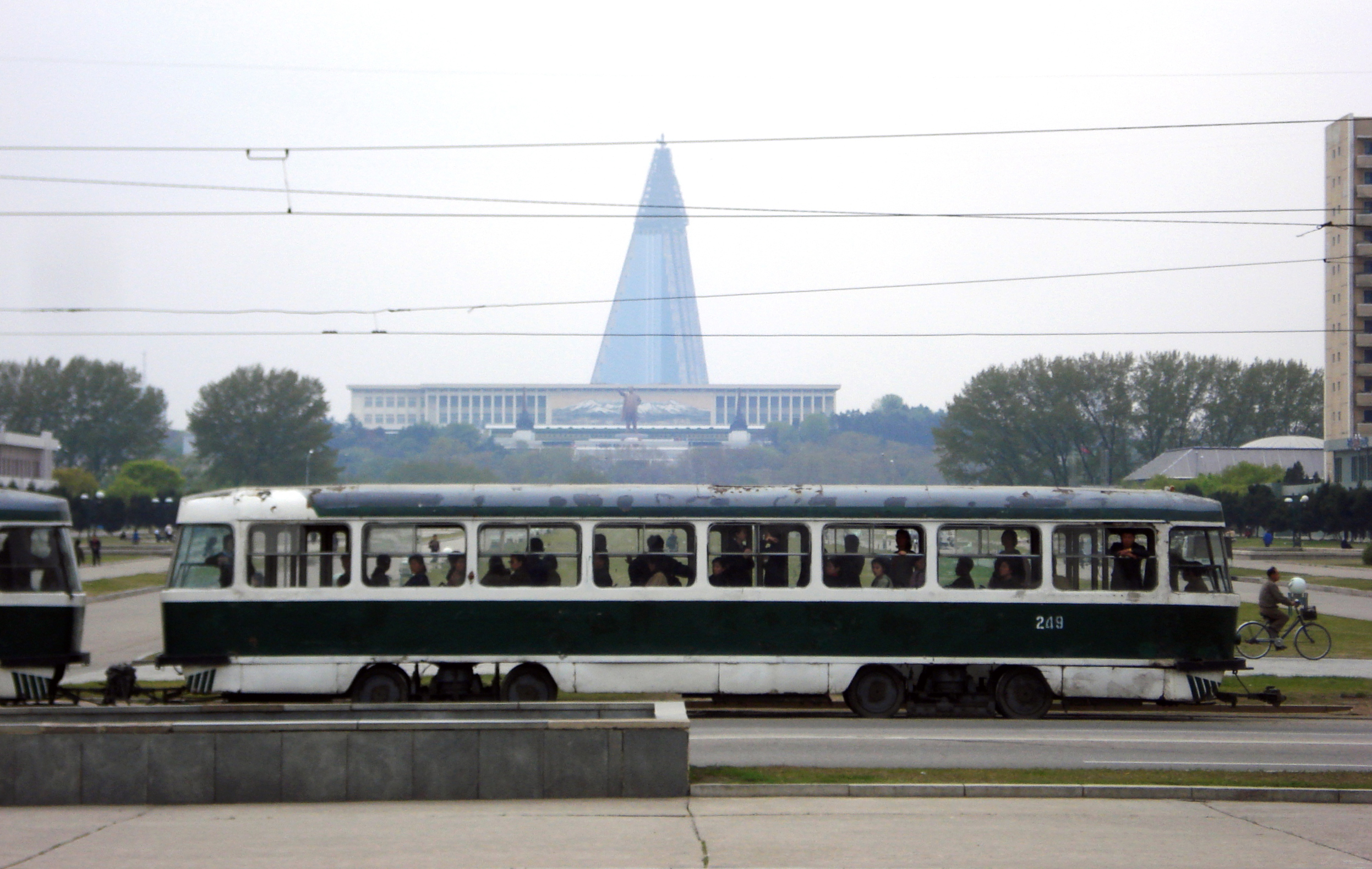 DPRK Pyongyang trolley